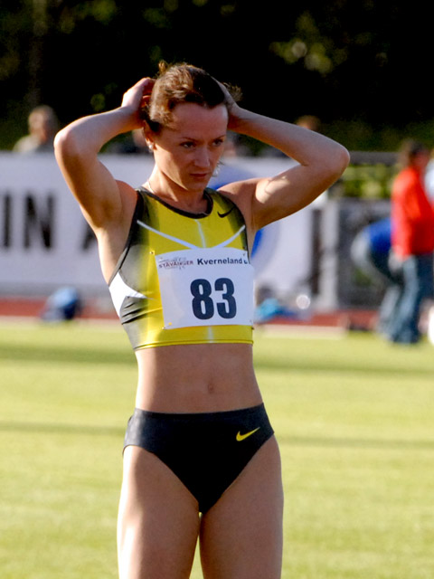 Yelena Slesarenko at Stavanger Games 2007.